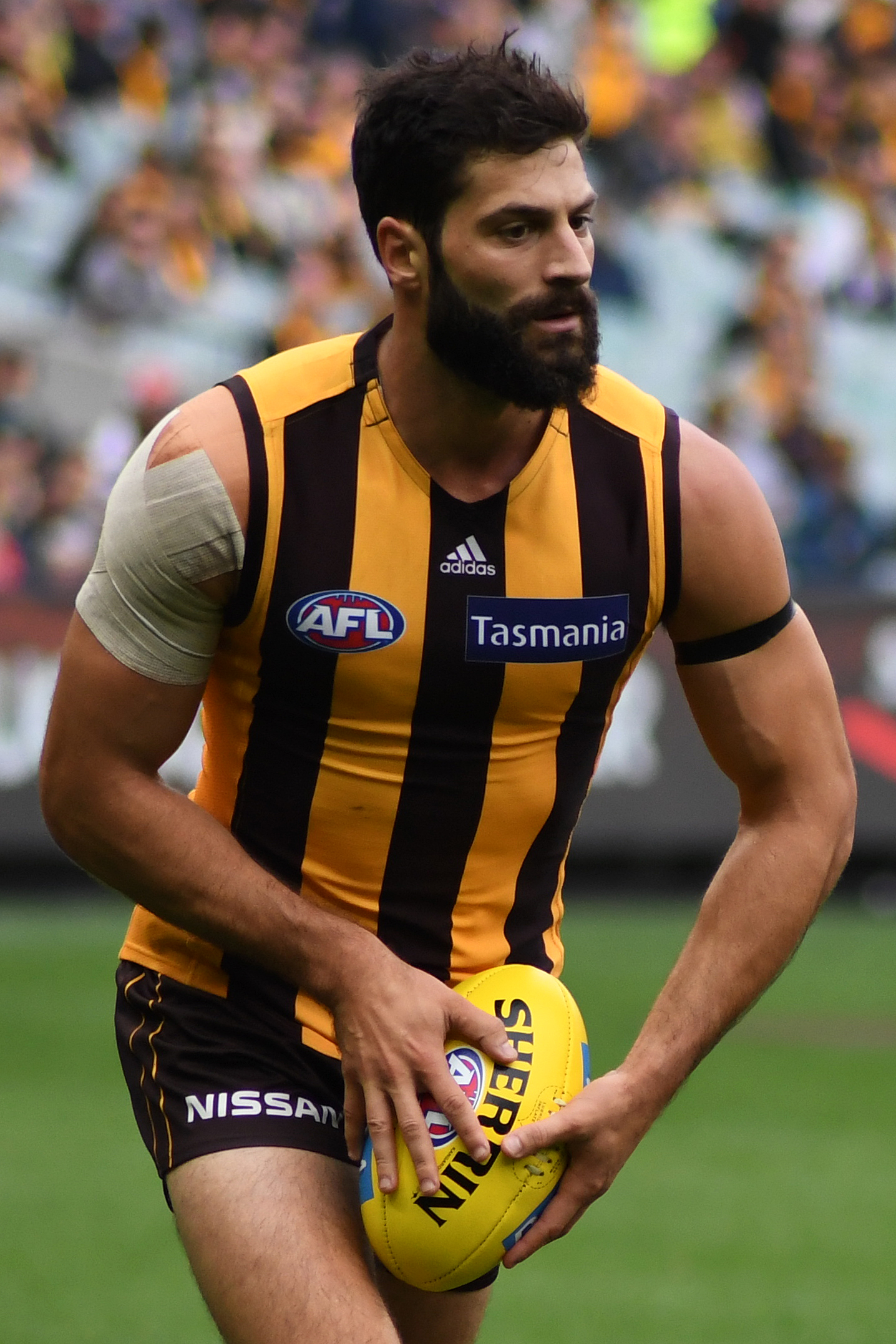 David Mirra of Hawthorn during the 2019 AFL round 5 match between Hawthorn and Geelong at the Melbourne Cricket Ground on Monday, 22 April 2019 in Melbourne, Victoria.